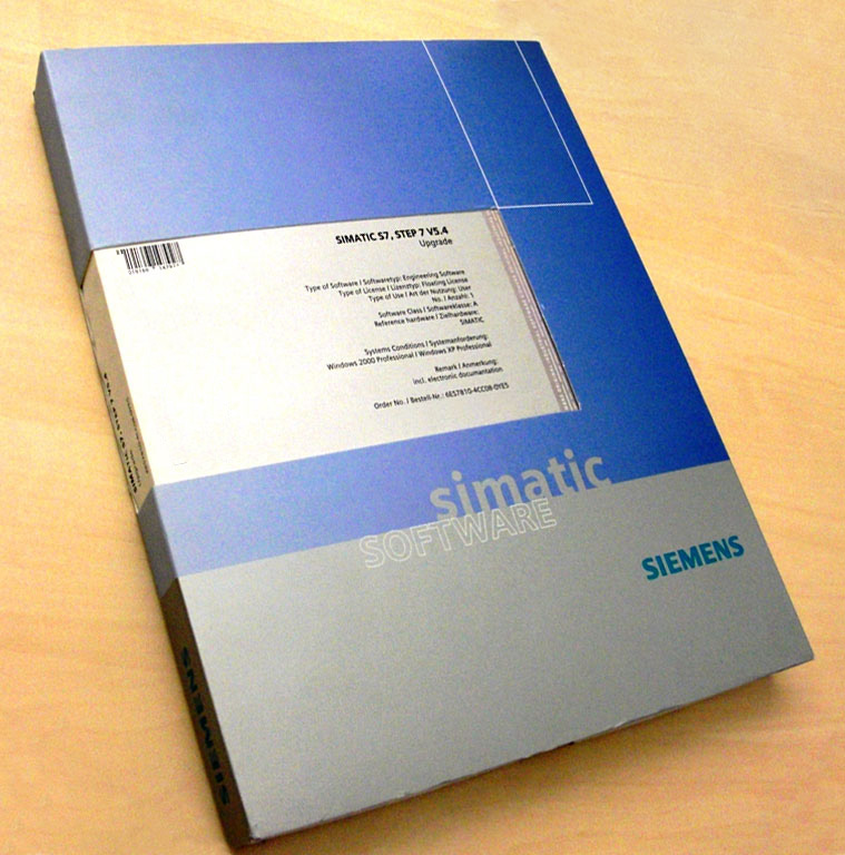 The Siemens SIMATIC S7 SATEP 7 V5.4 Software Package.